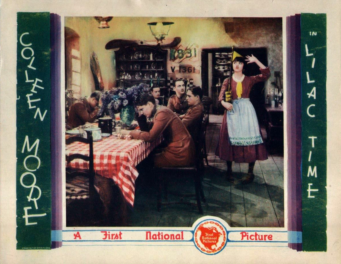 Lobby card for the American romantic war film Lilac Time (1928).